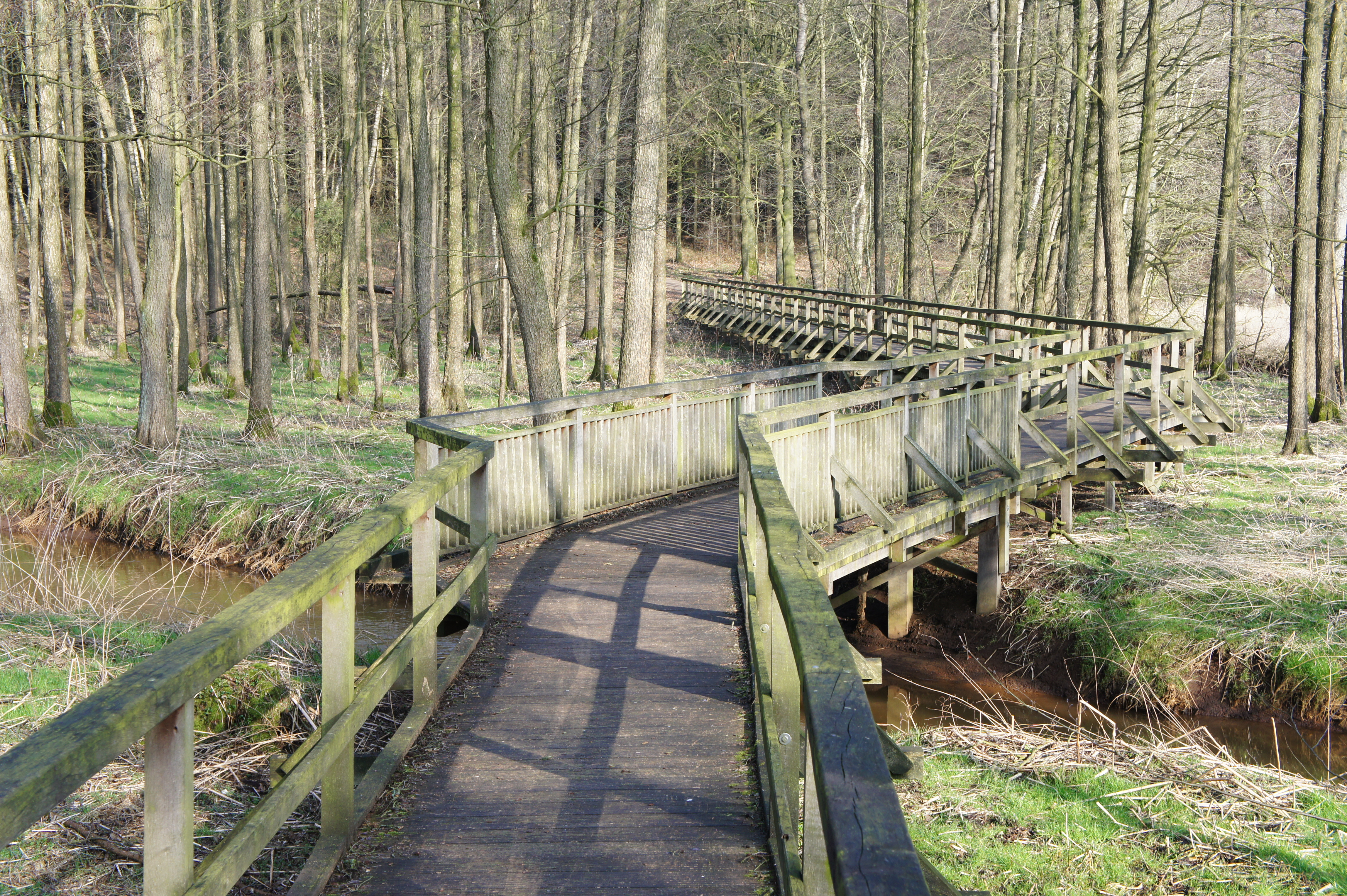 The oceanbridge near Harpstedt